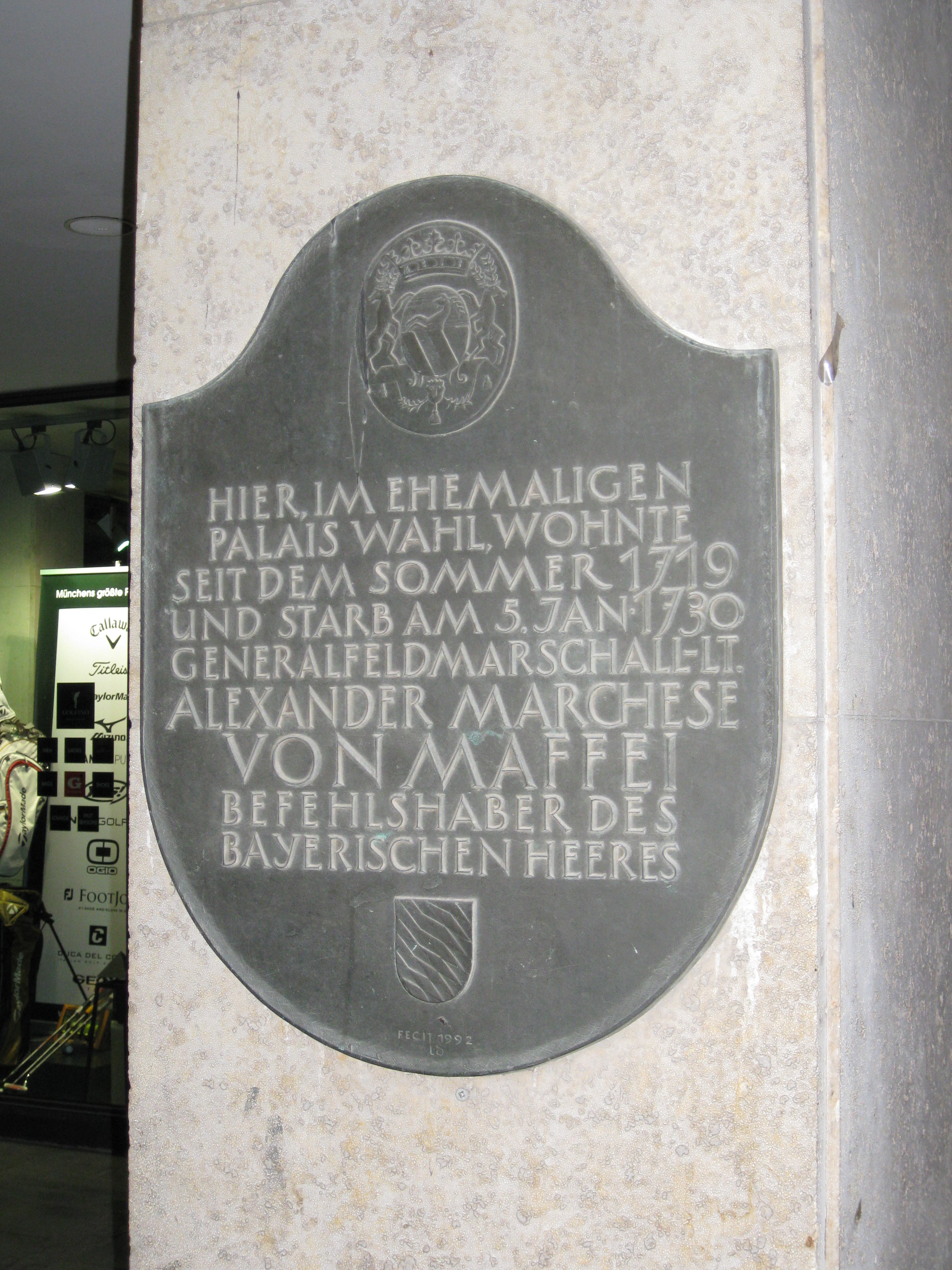 Plaque for Alexander von Maffei (-1730), also called Alessandro, general of the bavarian army. Located in the center of Munich.